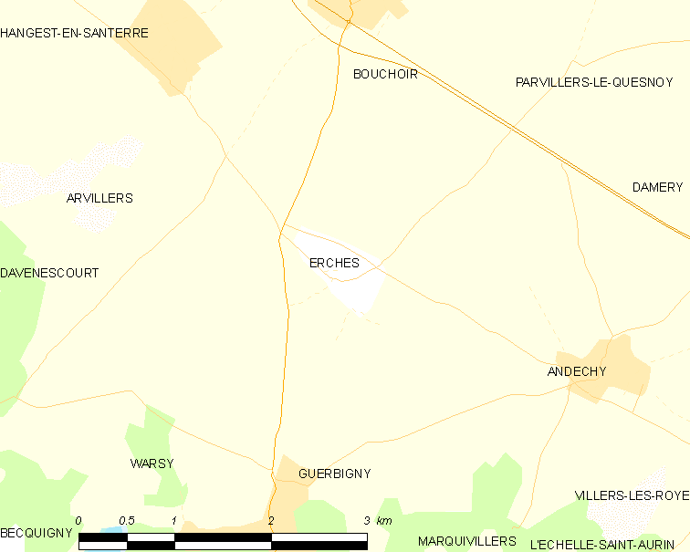 Map of French municipality Erches